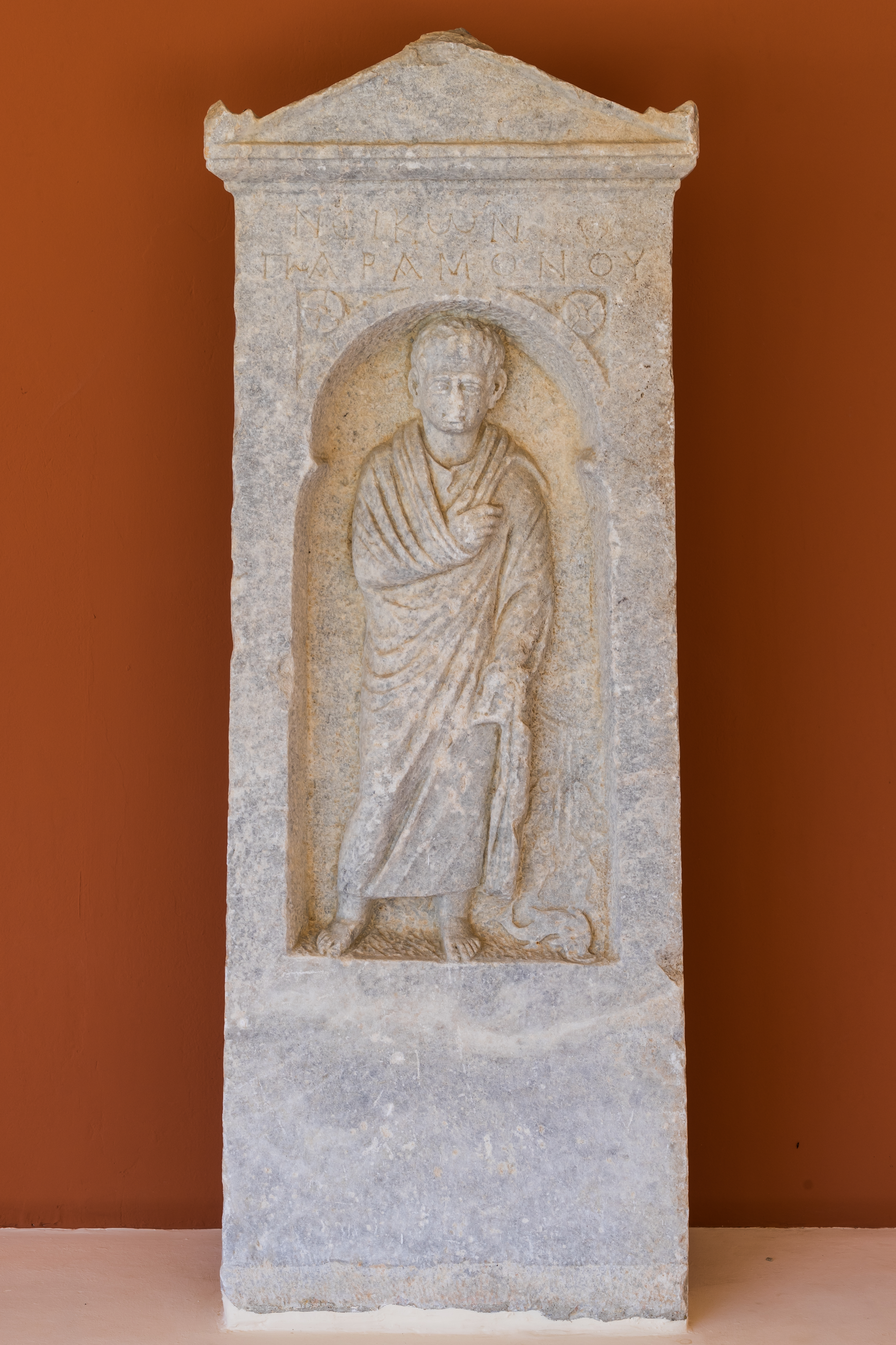 Funerary stele of Nikon the fisherman, archaeological museum of Eretria, Euboea, Greece. Archaeological Museum of Eretria Native nameΑρχαιολογικό Μουσείο ΕρέτριαςLocationEretria, GreeceCoordinates38° 23′ 45.96″ N, 23° 47′ 22.42″ E Established1960 Web page control : Q42114772 VIAF: 173024206 ULAN: 500300138 institution QS:P195,Q42114772 inv. n° 674